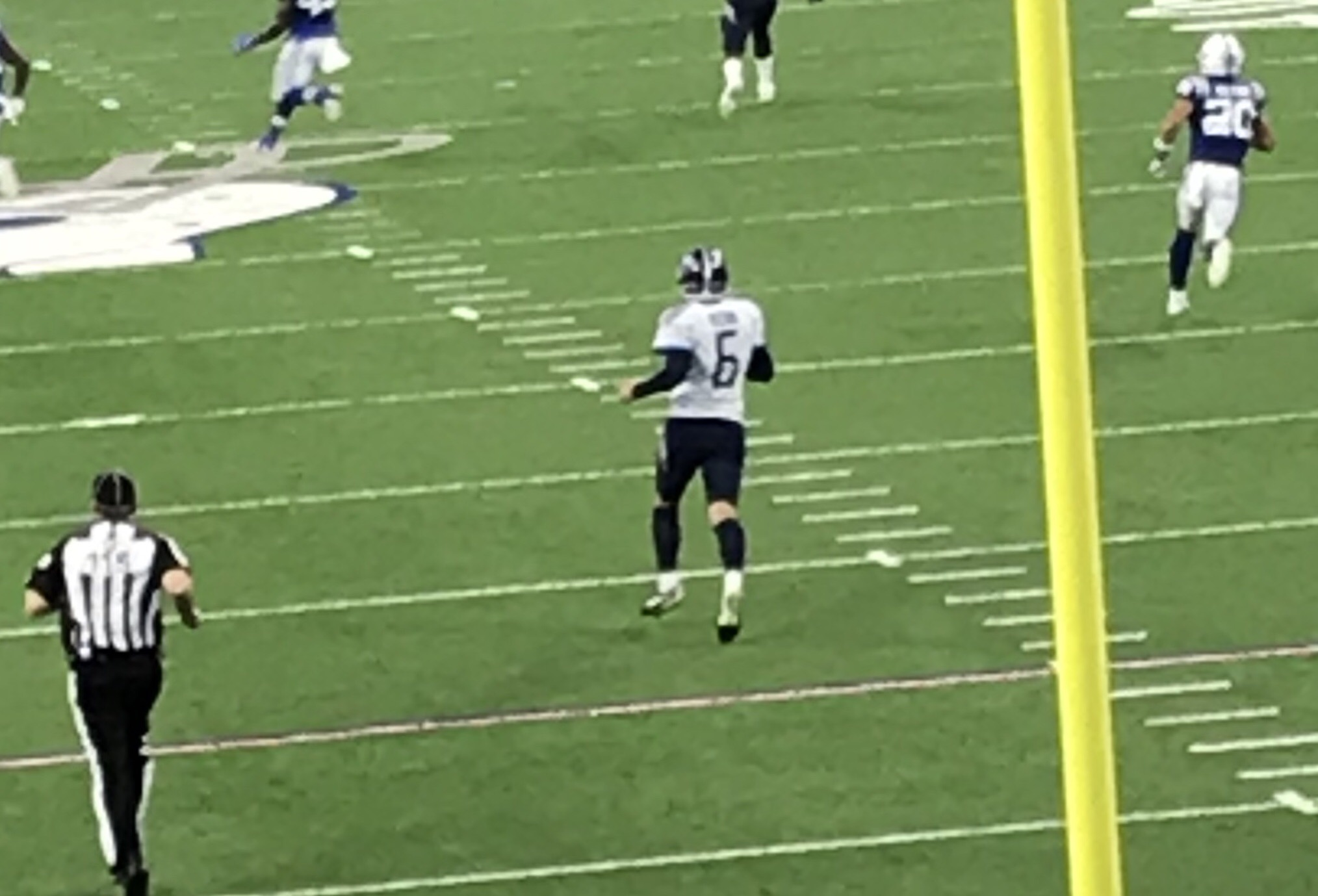 Punter Brett Kern playing against the Colts on November 18, 2018.